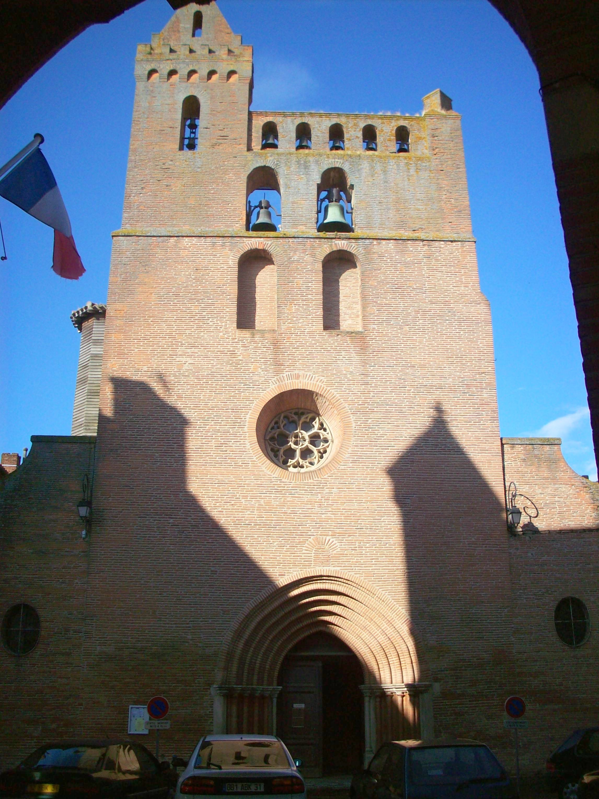 Auterive St Paul's church (31)